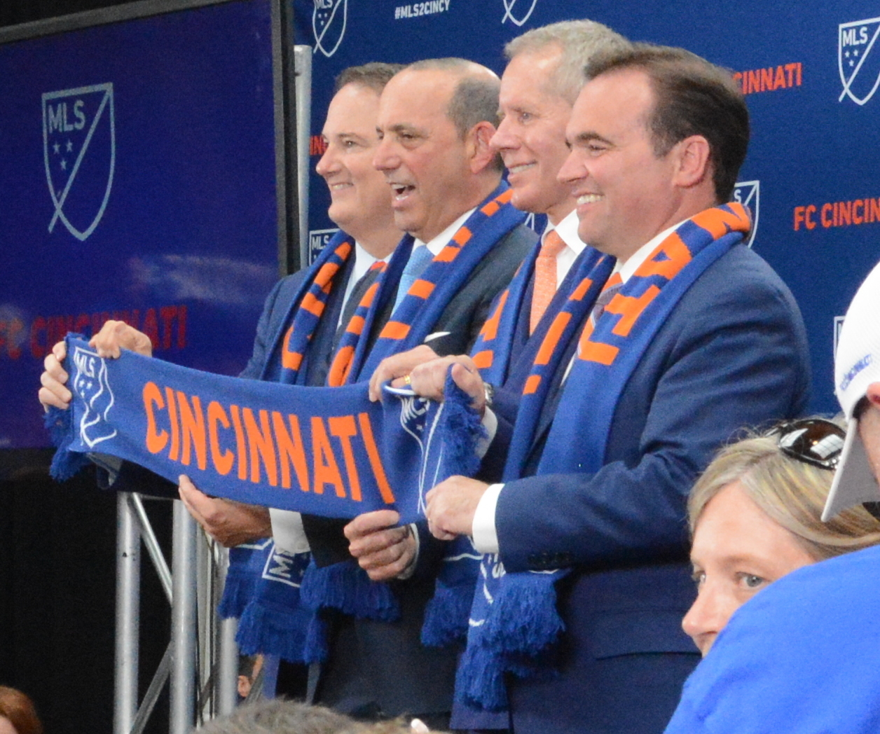 Jeff Berding, Don Garber, Carl Lindner III, and John Cranley hold up a Cincinnati MLS scarf for a photo op after the event. This photo was taken at an FC Cincinnati (FCC) event at Rhinegeist Brewery in Over-the-Rhine, Cincinnati, Ohio, USA on May 29, 2018. At the event, Major League Soccer commissioner Don Garber officially awarded an MLS franchise to FCC. Other speakers at the event included FCC general manager Jeff Berding, FCC owner and CEO Carl Lindner III, Cincinnati mayor John Cranley, and ESPN soccer commentators Adrian Healey and Taylor Twellman. The event was simultaneously livestreamed to a public party at Fountain Square in downtown Cincinnati.